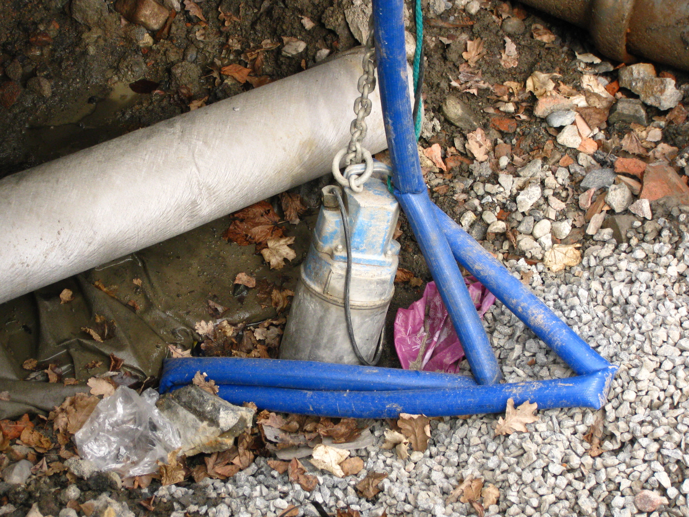 A submersible pump draining a ditch